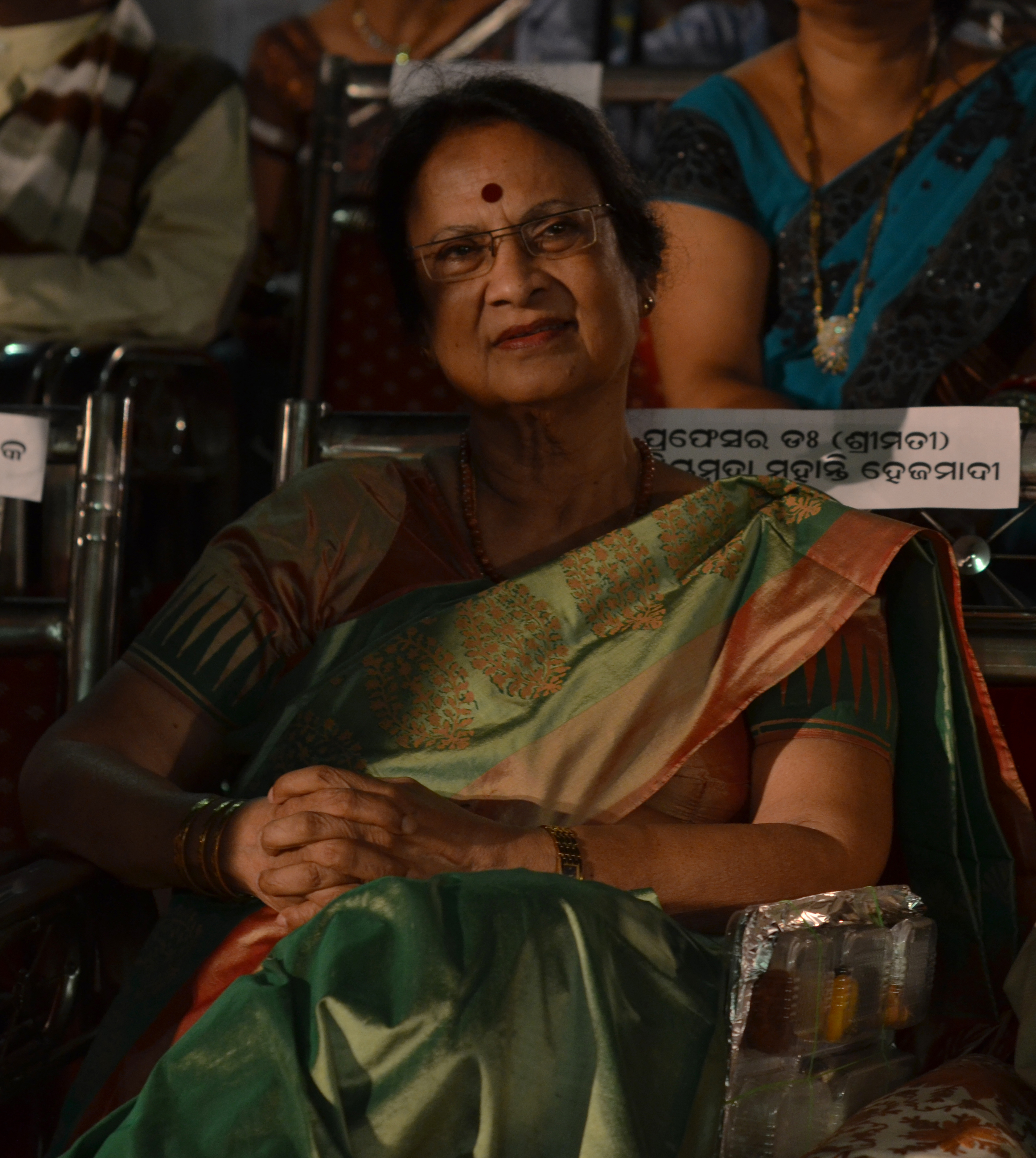 Priyambada Mohanty Hejamdi is a Odissi dancer, researcher and professor. This picture was taken during 22nd Odia Film Award ceremony 2015, at Utkal Mandap, Bhubaneswar, Odisha, India.